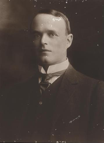 John Arthur